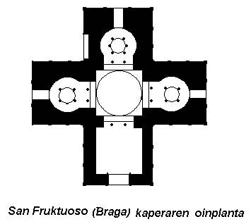 Plan view of San Fructuoso Chapelle (Braga)